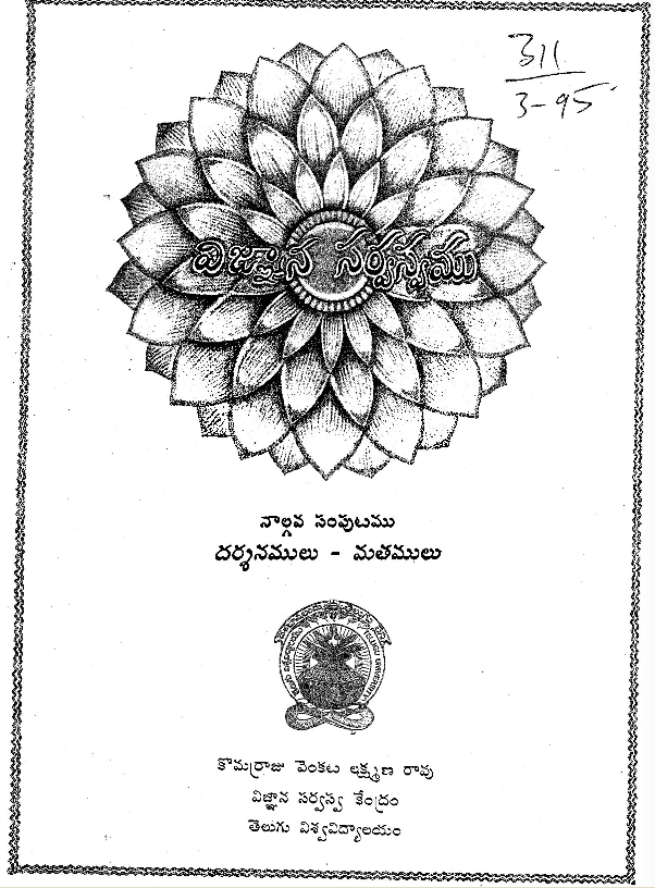 Telugu Encyclopaedia vol 4. Philosophies-Religions by Kommarraju Venkata Lakshmana Rao Telugu Vignana sarvaswa kendramu, Potti Sriramulu Telugu University